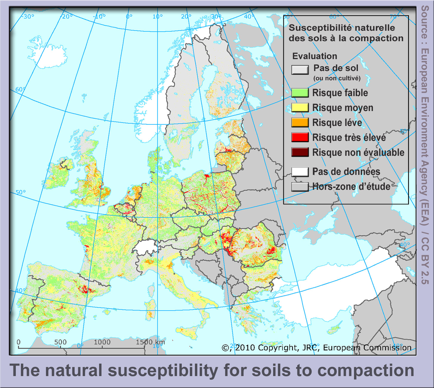 The map shows the natural soil susceptibility to compaction, created from the evaluation of selected parameters from the ESDB. The soil susceptibility to compaction was divided into 4 categories. Two additional categories represent the data concerning places where this evaluation was either not relevant or could not been provided because of lack of information. the last of 6 categories ("no evaluation possible") was the case of towns including also soils, soils disturbed by man and marsh.